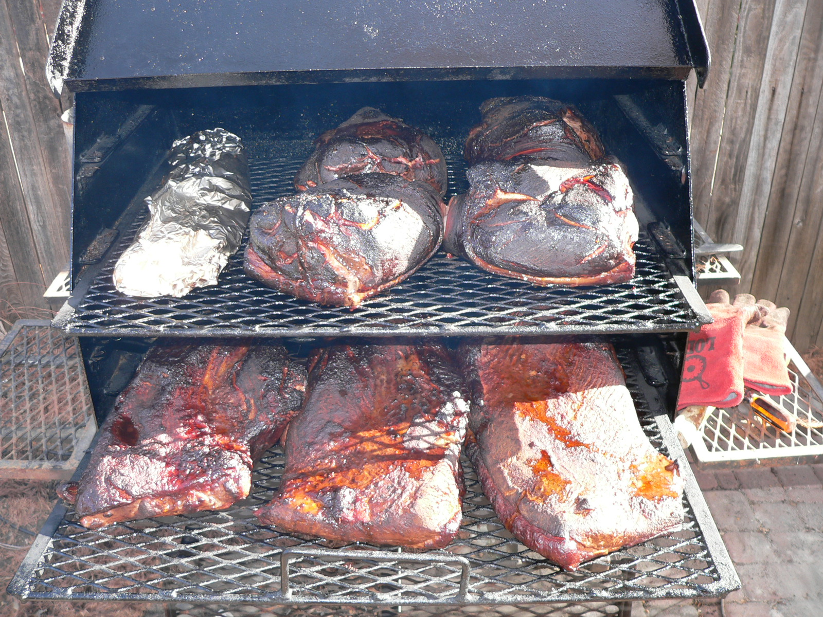 3 Briskets, 4 Pork Shoulders, and a rack of ribs for lunch